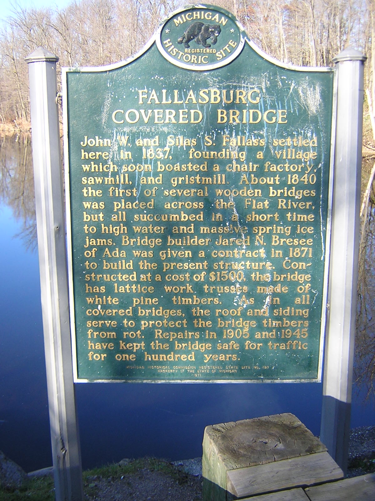 Historical marker for Fallasburg Bridge near Fallasburg, Michigan (just north of Lowell), on the Flat River.